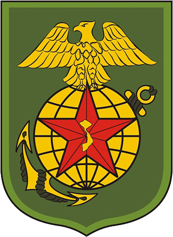 Shoulder Sleeve Insignia of the Republic of Vietnam Marine Division